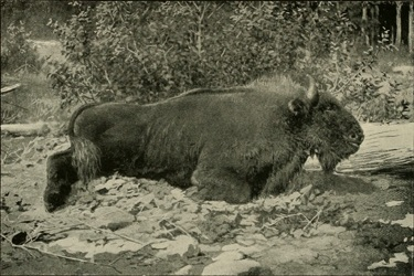 Caucasian Bison, 1898